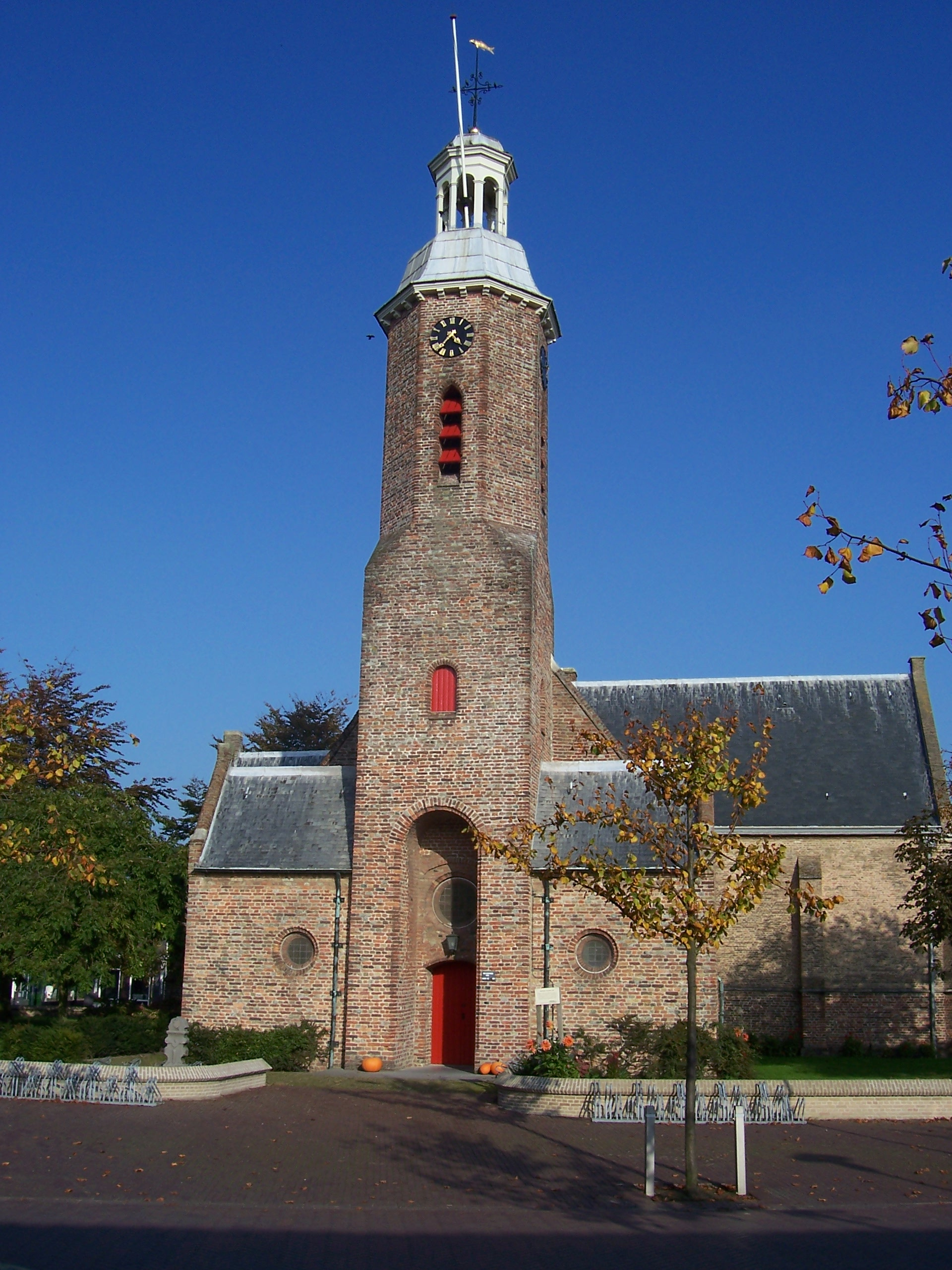 Church in s'Gravenpolder in the dutch province of Zeeland